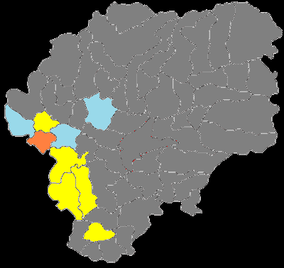 Hungarian minority in Bistrița-Năsăud County (Romania), according to the 2011 census, by communes (red = hungarian majority over 80%, orange = hungarian majority between 50 - 70%, yellow = hungarian minority over 20%, blue = hungarian minority between 10 - 20%, grey = hungarian minority under 10%).